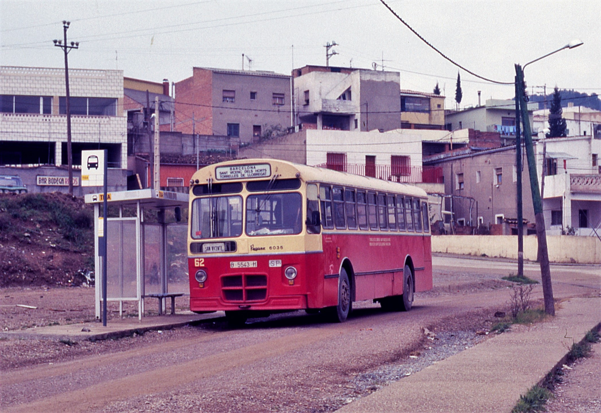 Bus 62 of Transportes Interurbanos S.A. in the terminal of Sant Vicenç dels Horts.